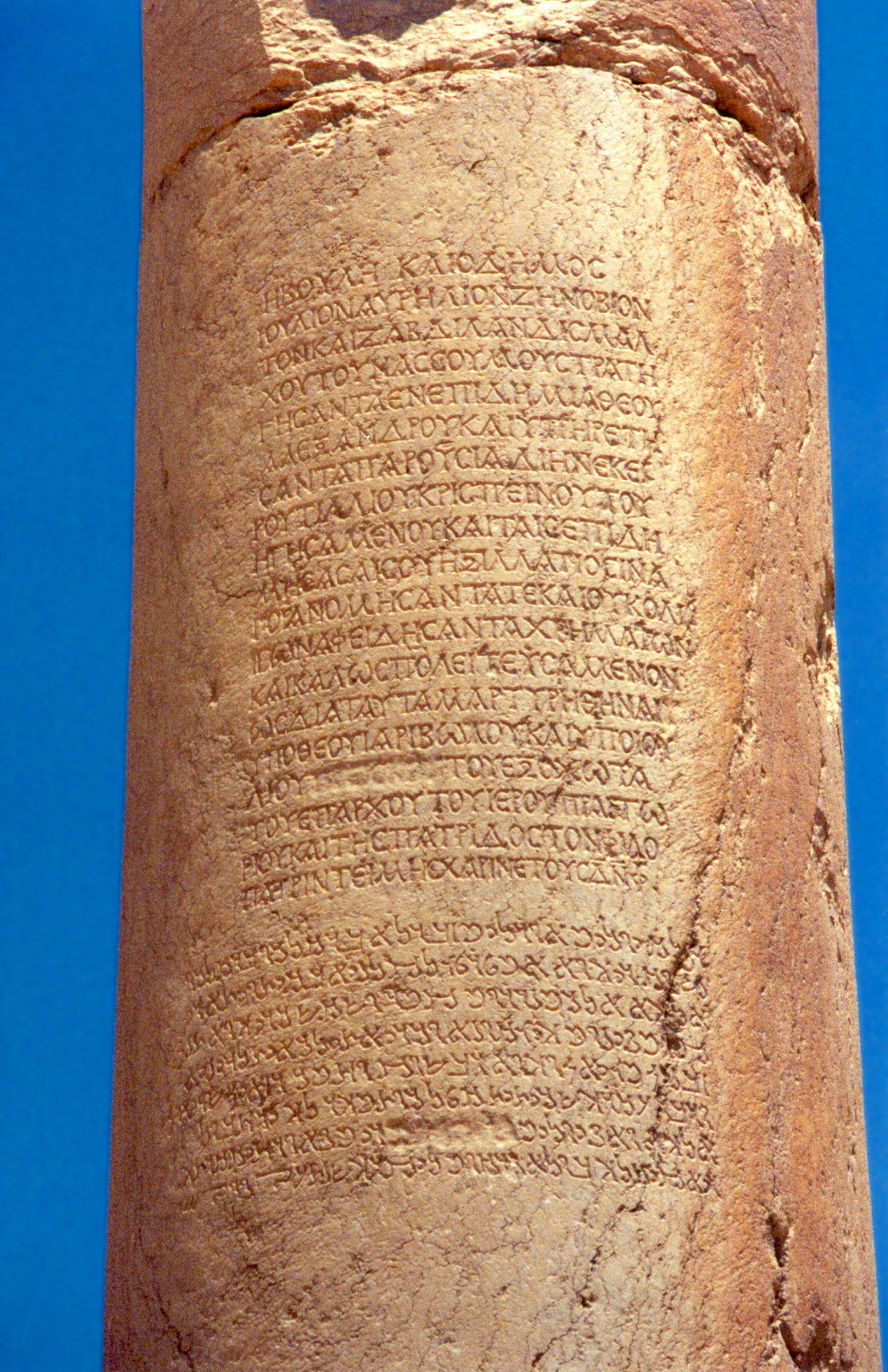 Inscription in Greek and Aramaic in honour of Julius Aurelius Zenobius, the father of Queen Zenobia, at Palmyra.